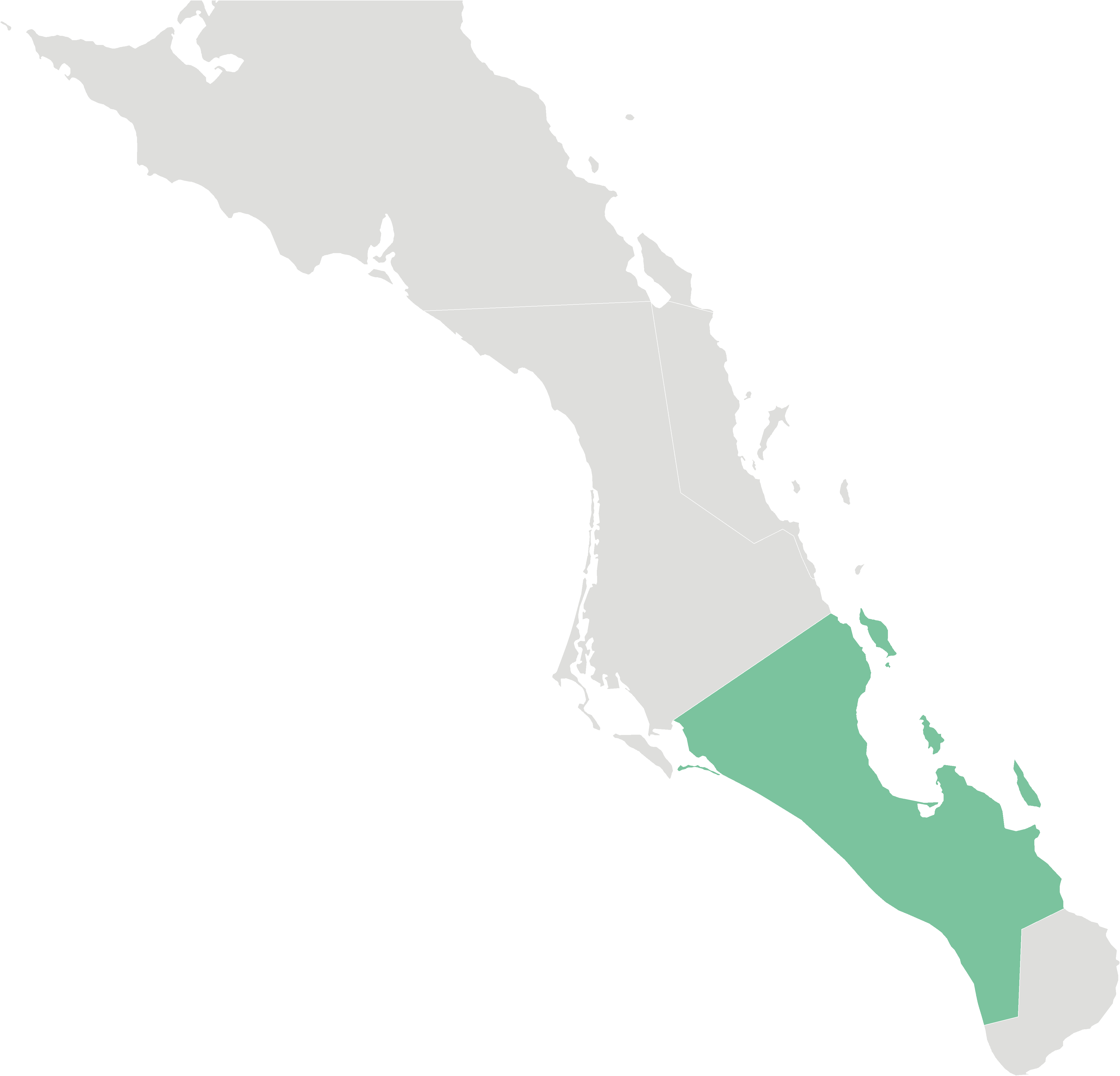 Map of the Municipalty of La Paz in the State of Baja California Sur, México.